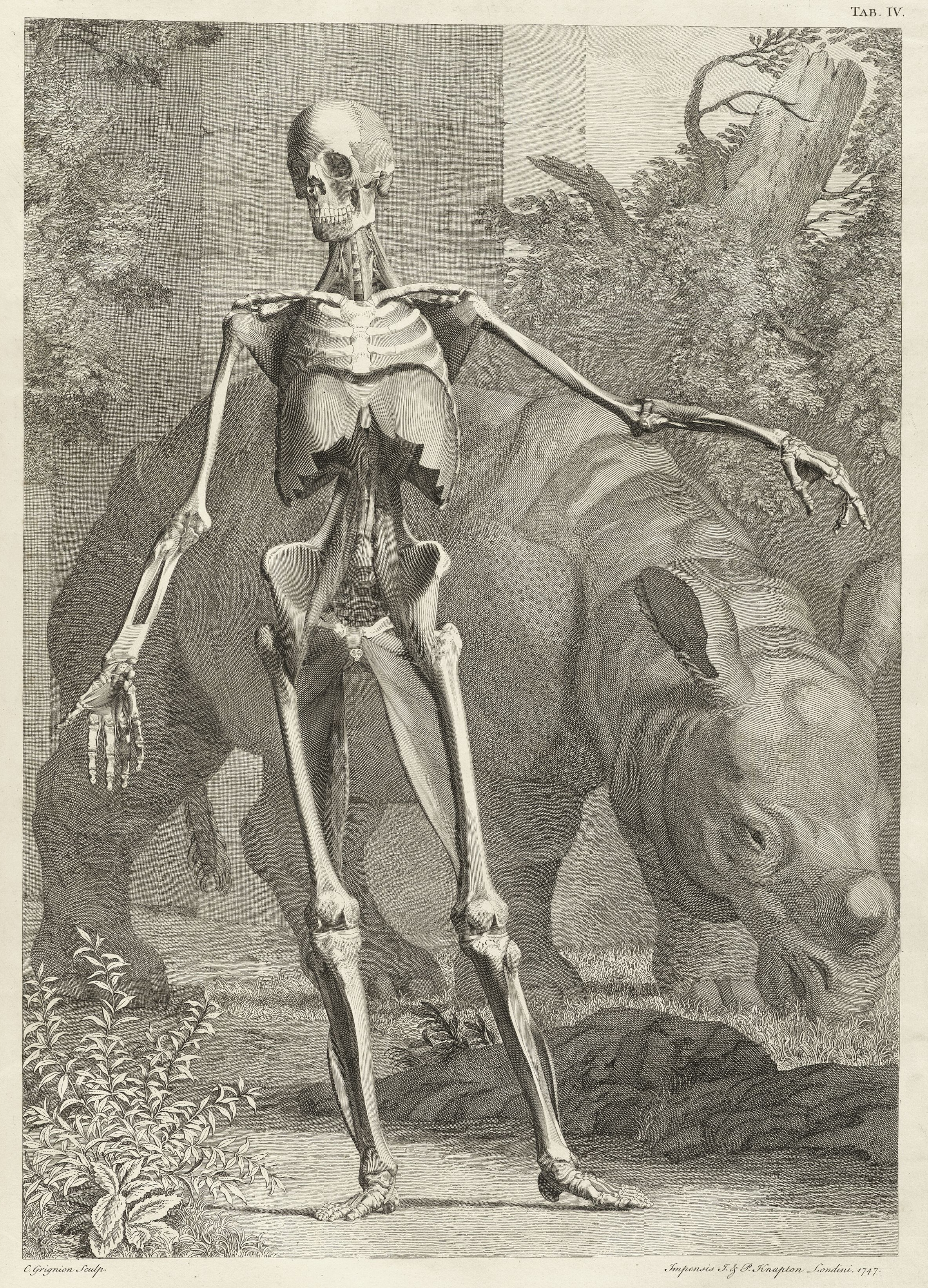 Engraving of Clara and a human skeleton for Tabulae sceleti et musculorum corporis humani. of Albinus, Bernhard Siegried, 1697-1770. Marked Tab IV. Artist: Wandelaar, Jan, 1690-1759.